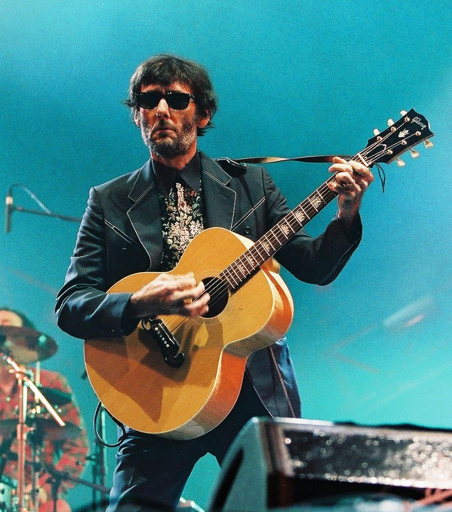 Fred Chichin, guitarist of Rita Mitsouko